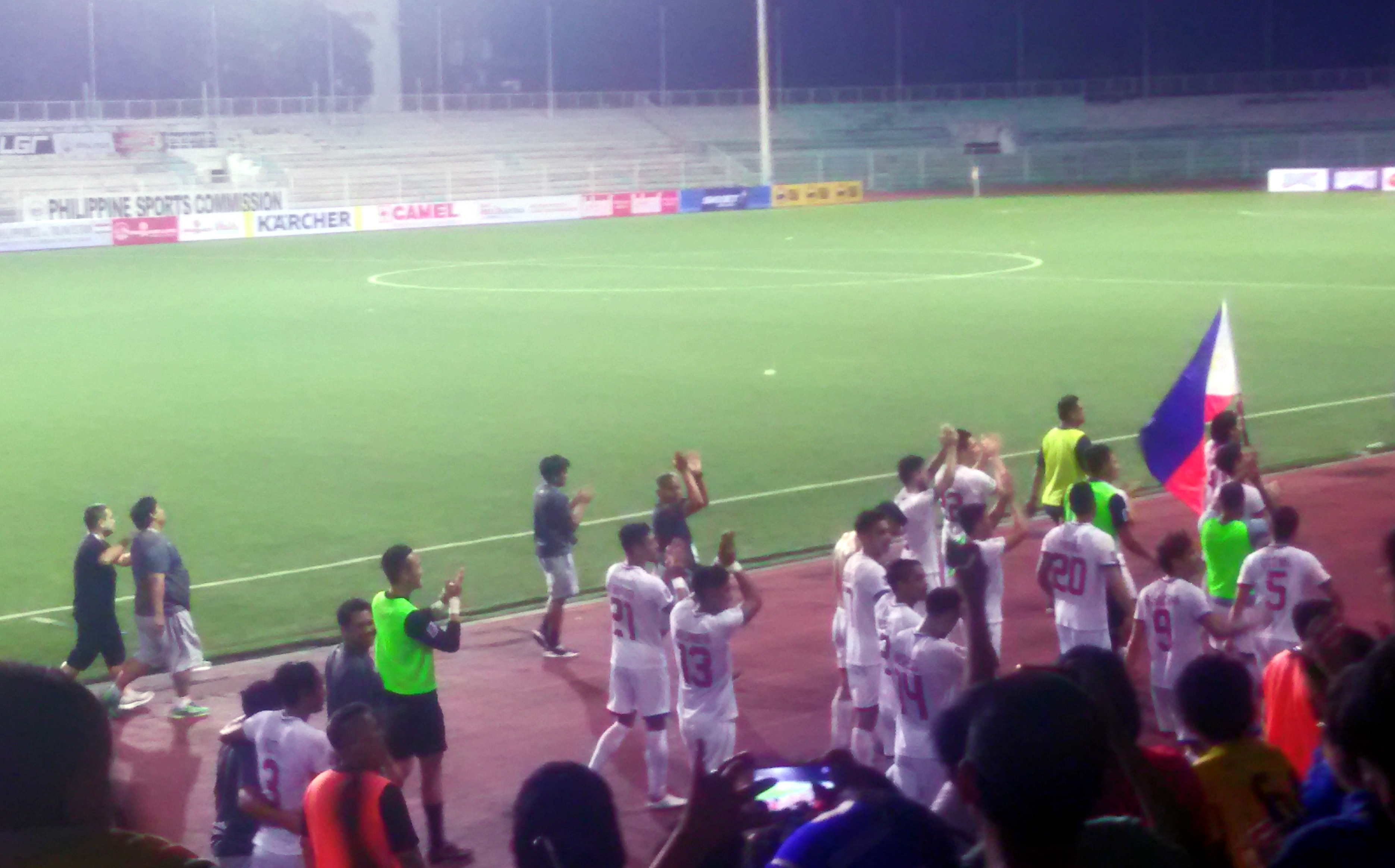 Philippines (white) vs Tajikistan (red); 2019 AFC Asian Cup qualifies. The Philippines celebrates their qualification to their first ever AFC Asian Cup.